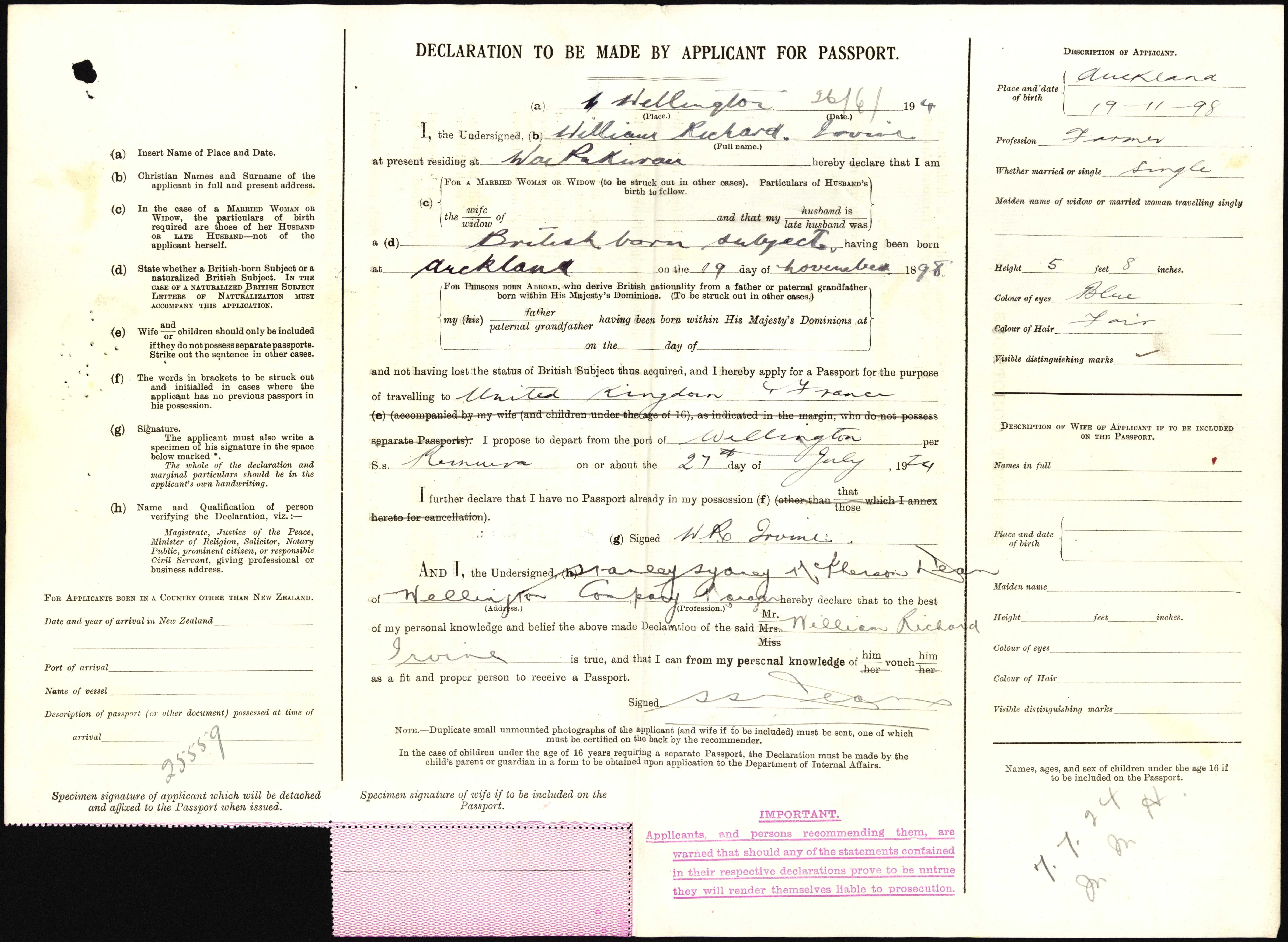 ACGO 8333 IA1 1349 / 15/11/17721 William Irvine passport application (1924)